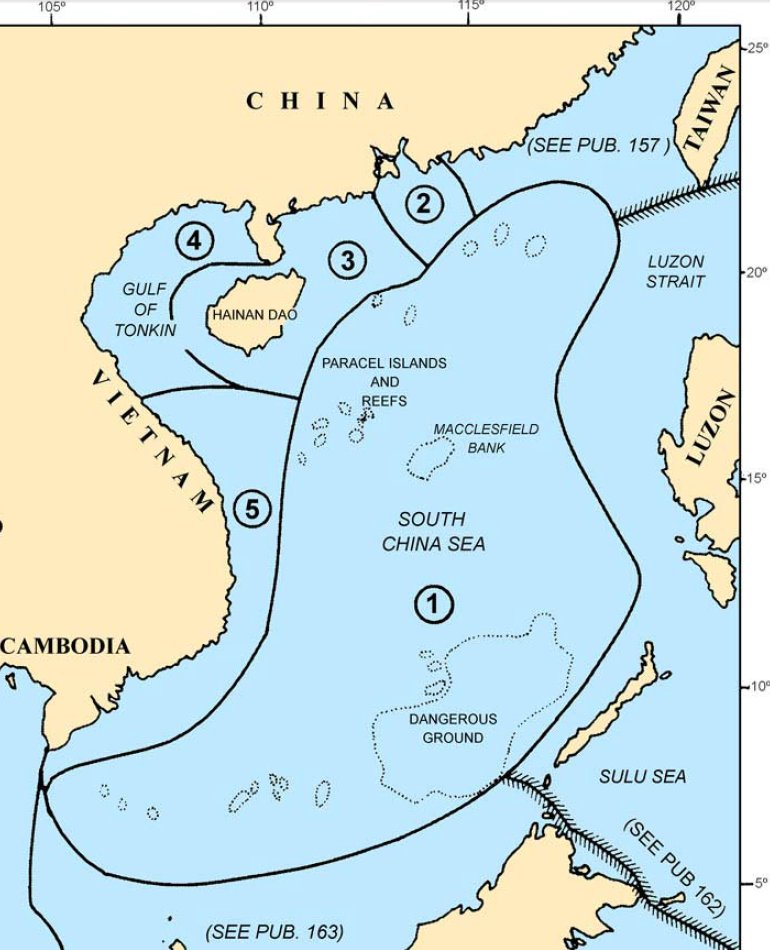 Map of the South China Sea region showing the areas covered by NGA Pub. 161, Sailing Directions (Enroute) South China Sea and the Gulf of Thailand, Fifteenth Edition, 2014